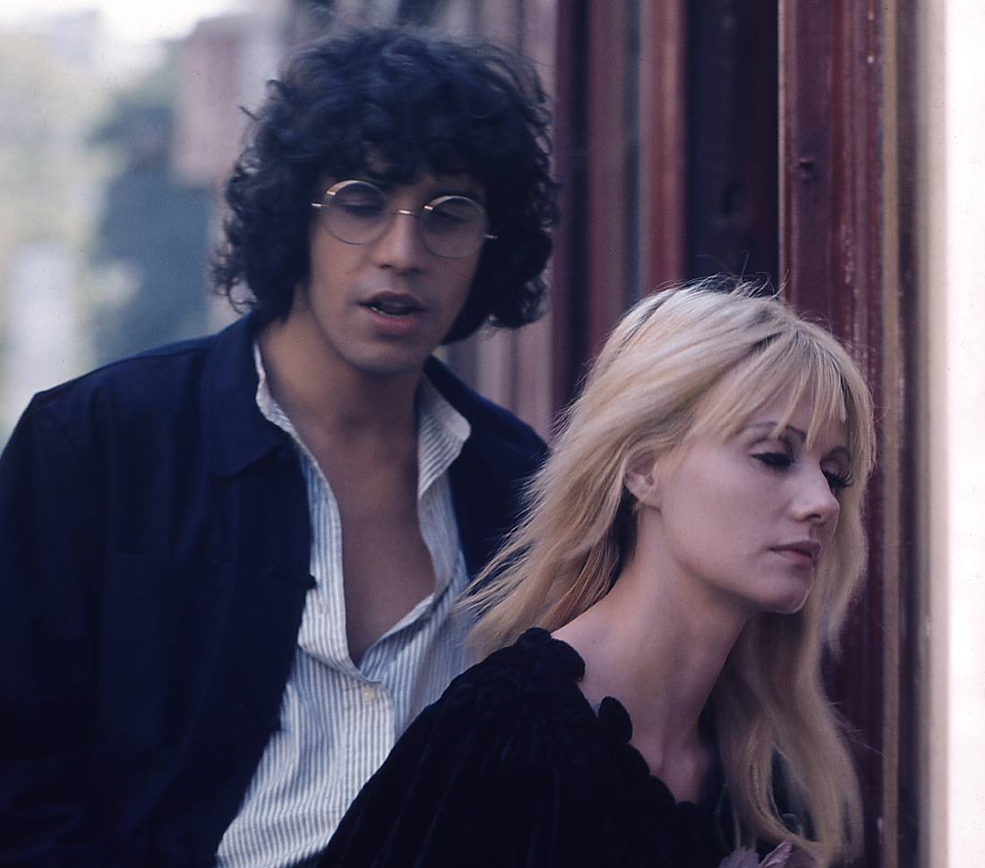 Miou-Miou with Julien Clerc during the filming of "D'Amour et d'eau fraîche", 1975